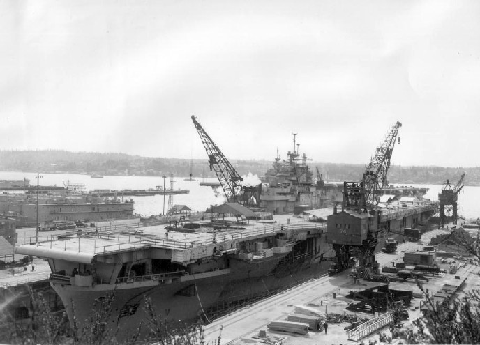 The U.S. Navy aircraft carrier USS Essex (CV-9) undergoing the SCB-27A modernization at drydock no. 5 of the Puget Sound Naval Shipyard, Bremerton, Washington (USA), between February 1949 and January 1951. The photo was taken on 22 April 1949.